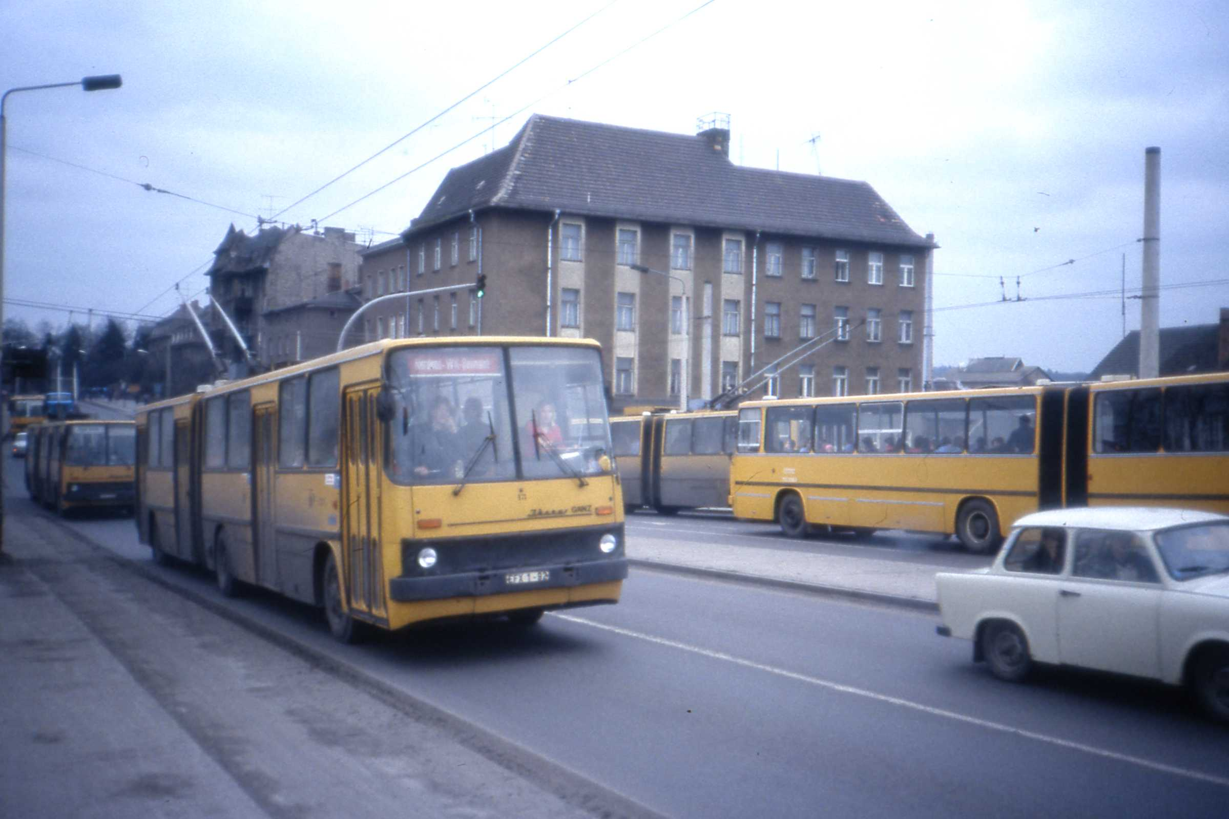 Three articulated Ikarus- Ganz trolleybuses and two Ikarus 280 articulated buses fill the viewfinder, along with a Trabant on the main route past the Brewery and VEB Takraf factory. Leading the charge uphil is EFX 1-92, No 13, a 1985 vehicle in service from 1986 until 1993, and scrapped in 1995. Quite a short life really. Oh and there's an IFA W50 looking to sweep past the uphill trio. Chexk out this Ebrswalde trolleybus clip on YouTube here